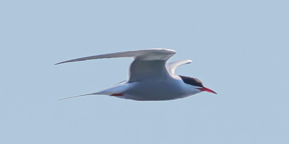 Tärna, Tern, Sternidae, around Vaxholm, Sweden